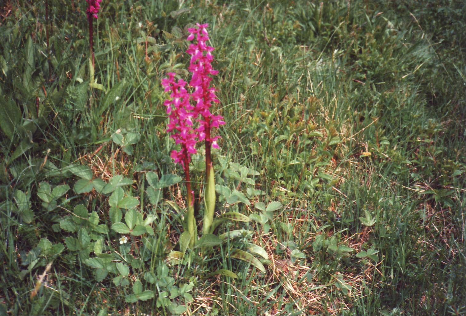 Orchis mascula Naturschutzgebiet Steinert Germany.